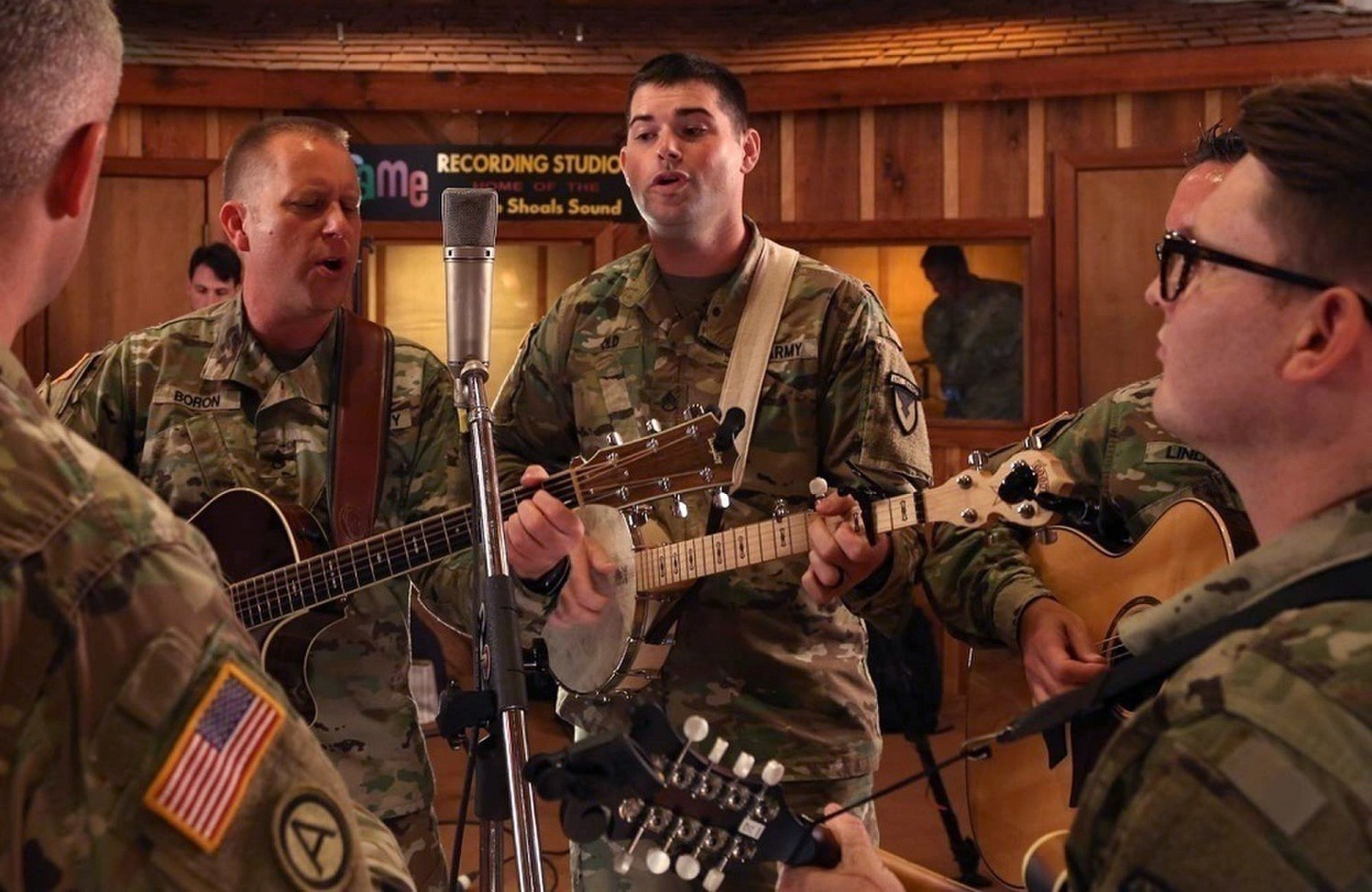 During a recording session at Fame Studios in Muscle Shoals, Ala., Soldiers from the Army Materiel Command Band and the Army Field Band's Six String Soldiers join forces. The AMC Band collaborated with many musicians to create a farewell album with the authentic Muscle Shoals sound.